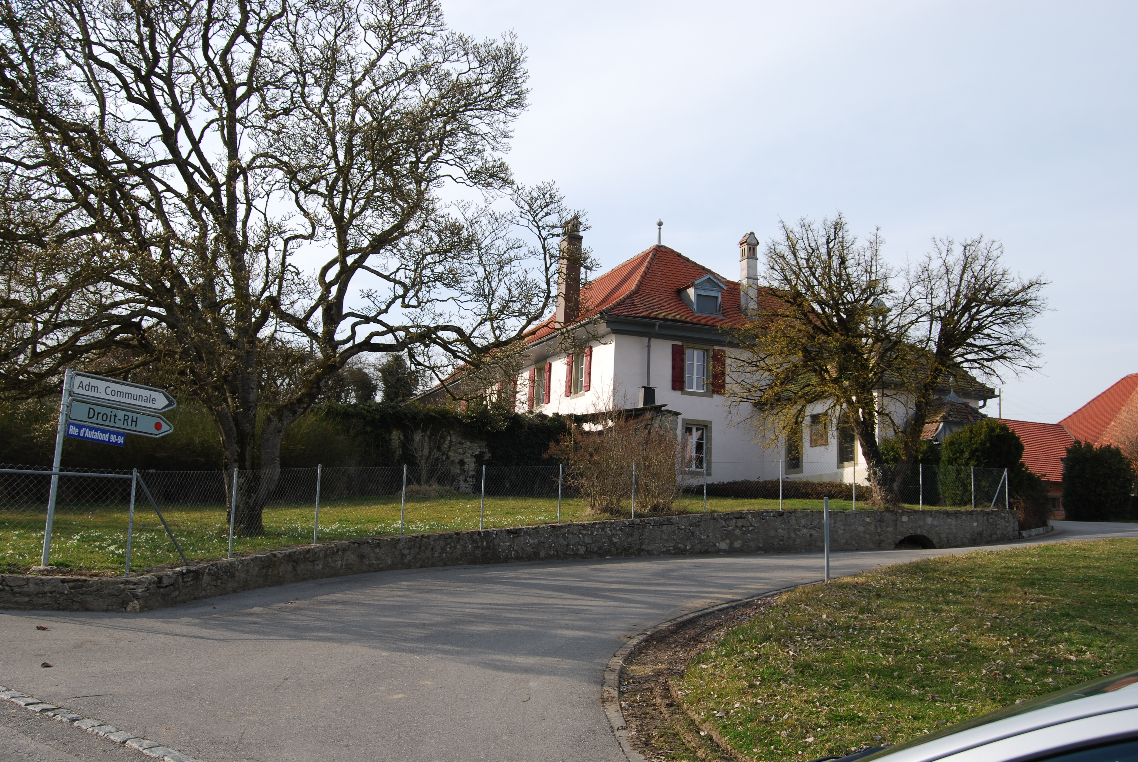 Municipal administration of Autafond at Chenaleyres, municipality Autafond, canton of Fribourg, Switzerland